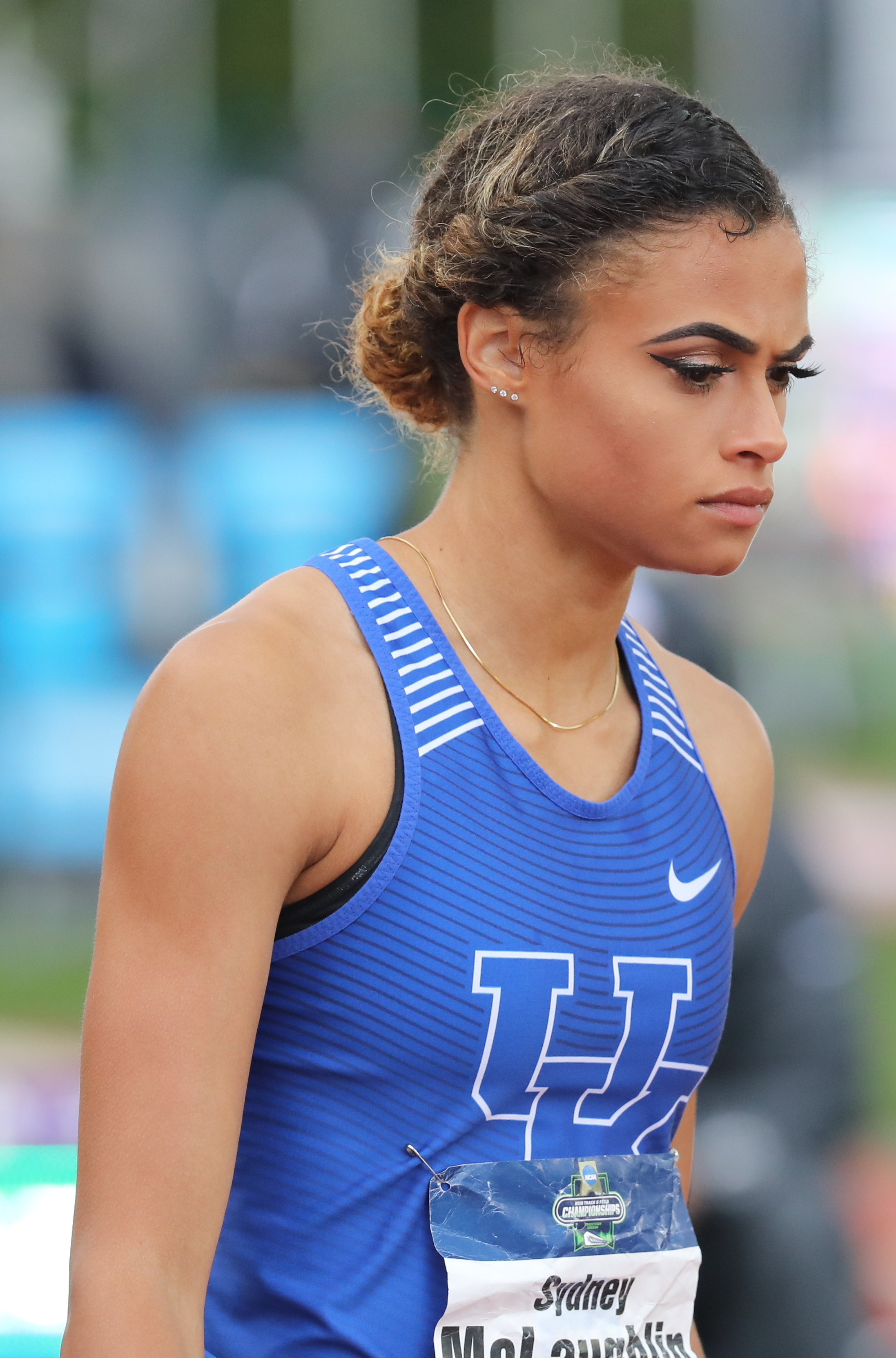 2018 NCAA Division I Outdoor Track and Field Championships